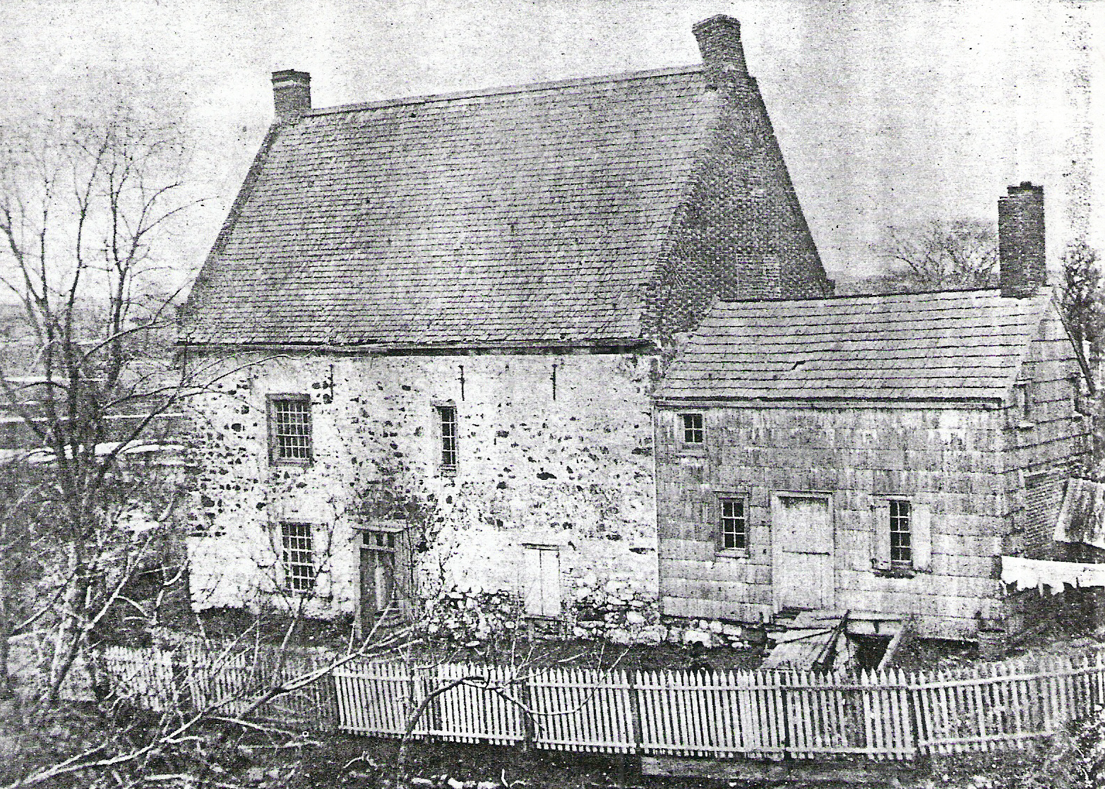 Photograph of the Vechte-Cortelyou House in Brooklyn, New York by John L. Pierrepont in the collection of the Brooklyn Historical Society